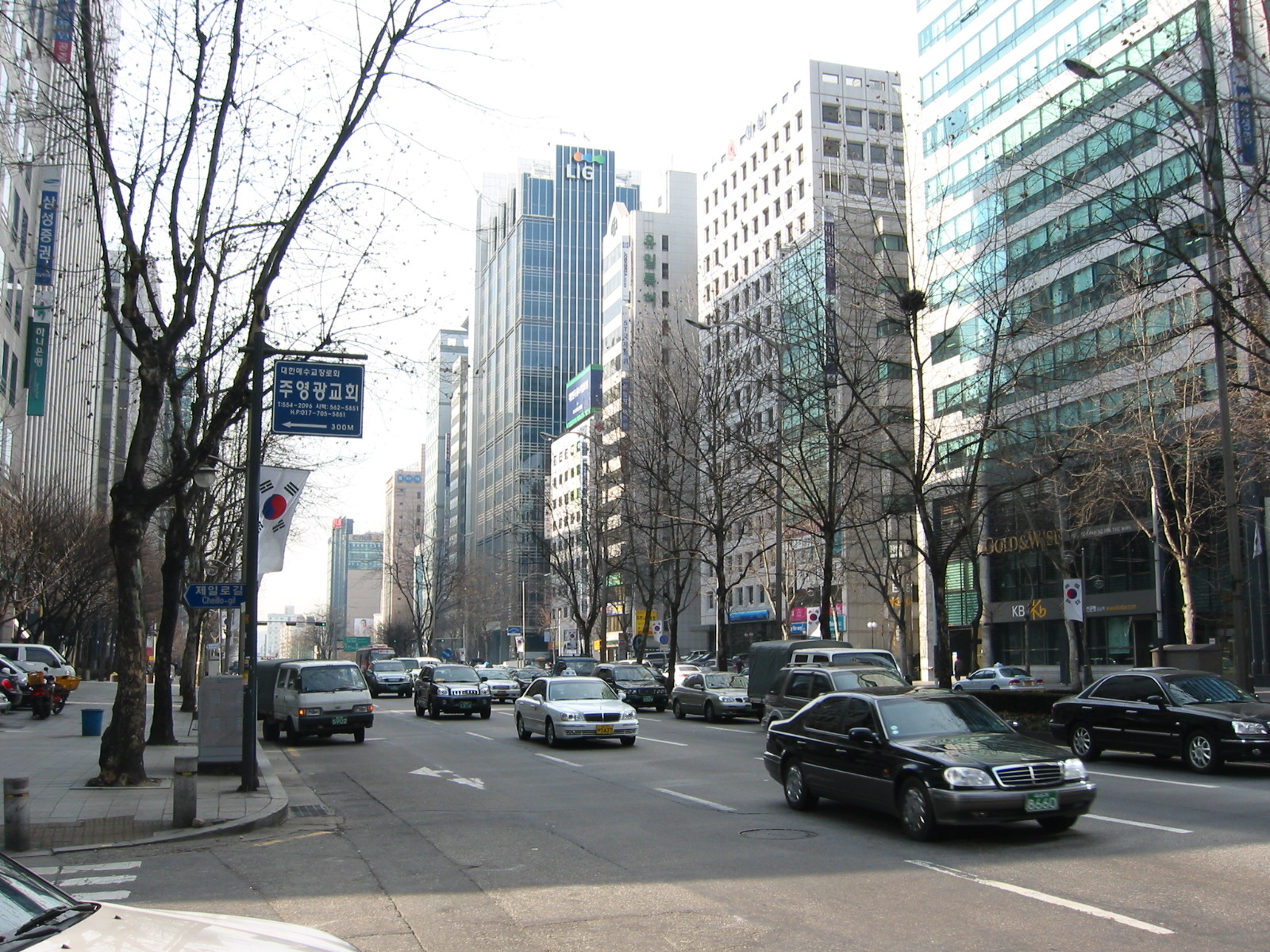 A view of Teheran-ro, Seoul, Korea